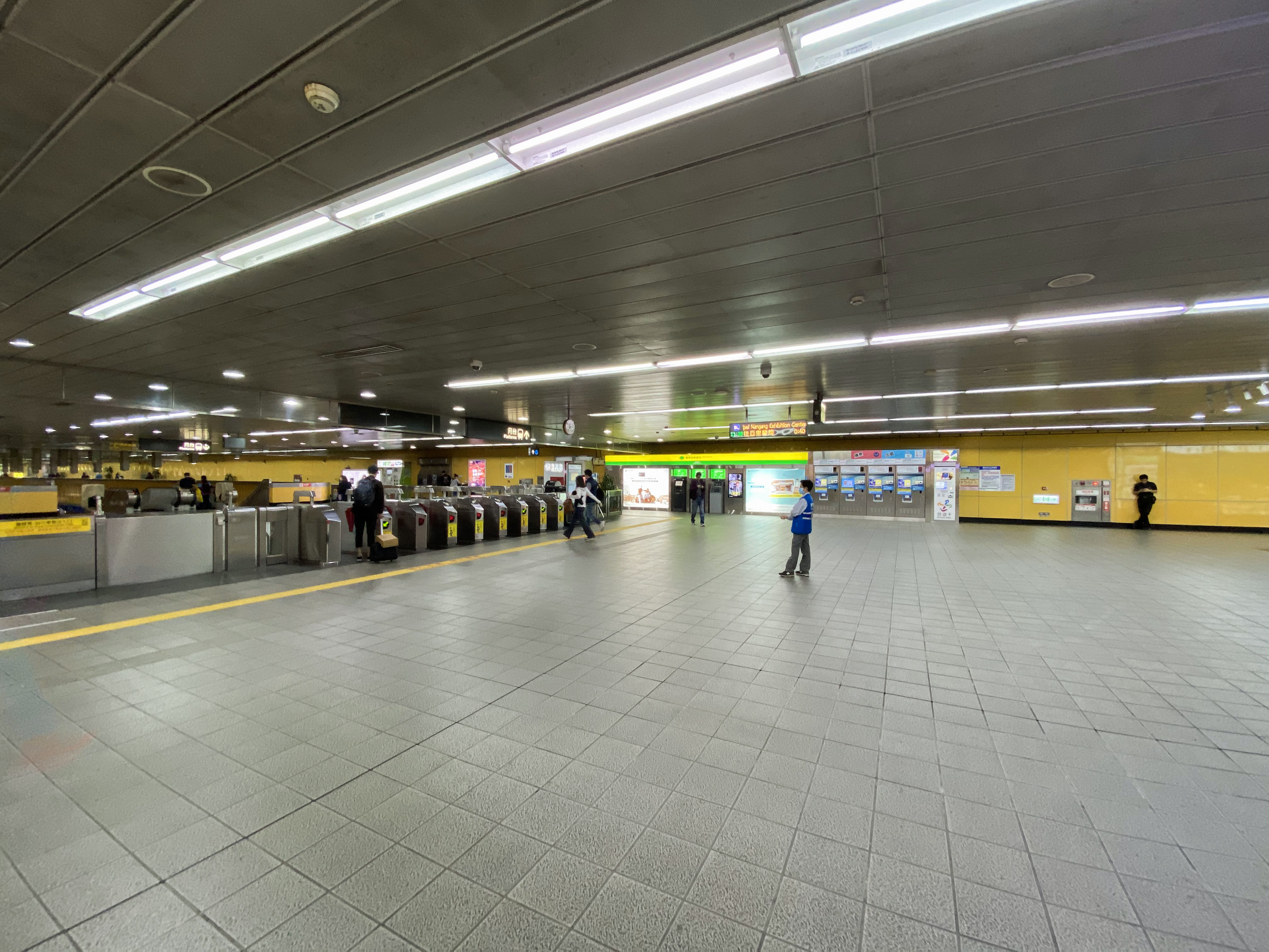 Taipei City Hall Station